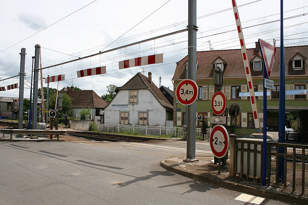 Level Crossing with gates and lights at Hochfelden (Bas-Rhin)